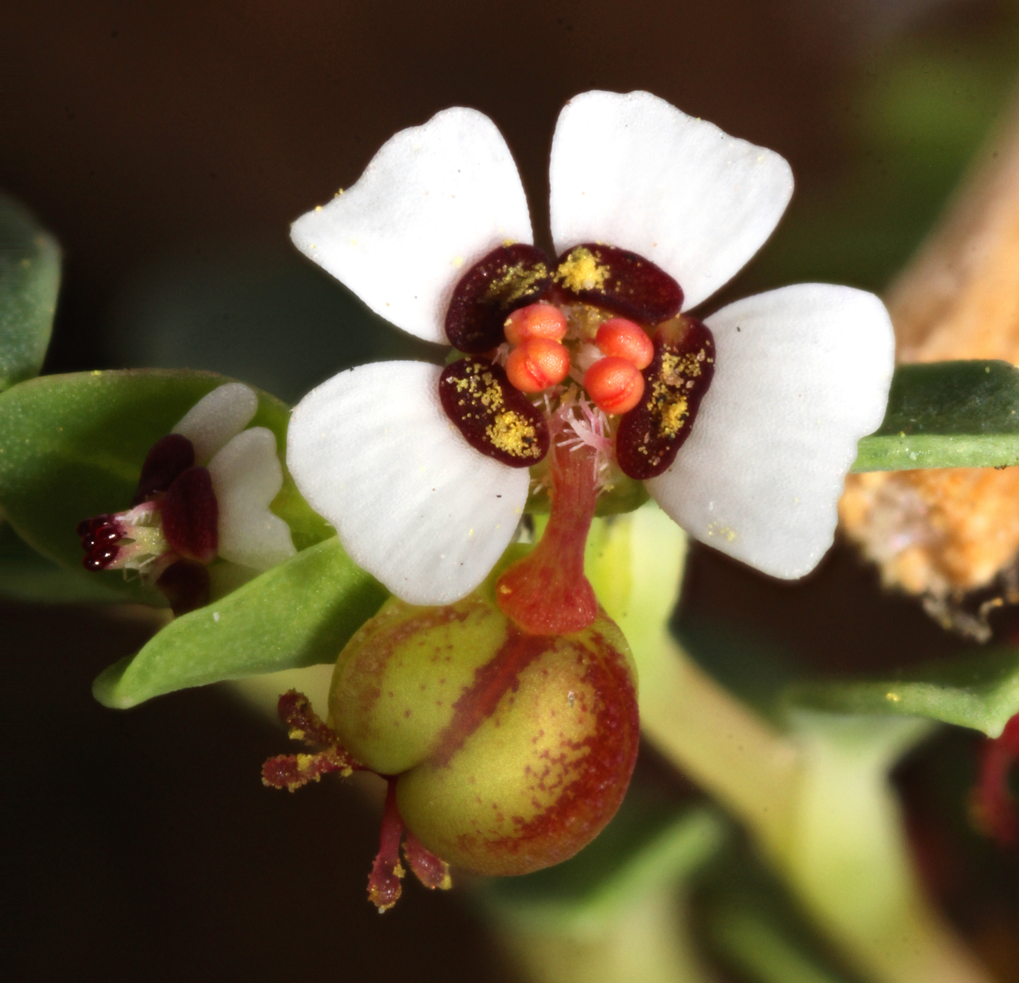 Rattlesnake sandmat (Euphorbia albomarginata) cyathium with seedpod. The four red balls are anthers that haven't opened yet. Location: Plant is from an area between Santiago Oaks Park and Irvine Park in Orange County, CA, USA